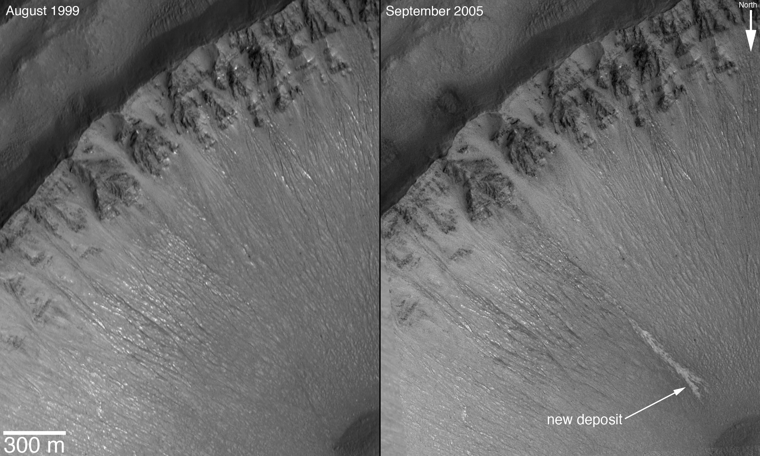 A new gully deposit in a crater in the Centauri Montes Region of Mars.